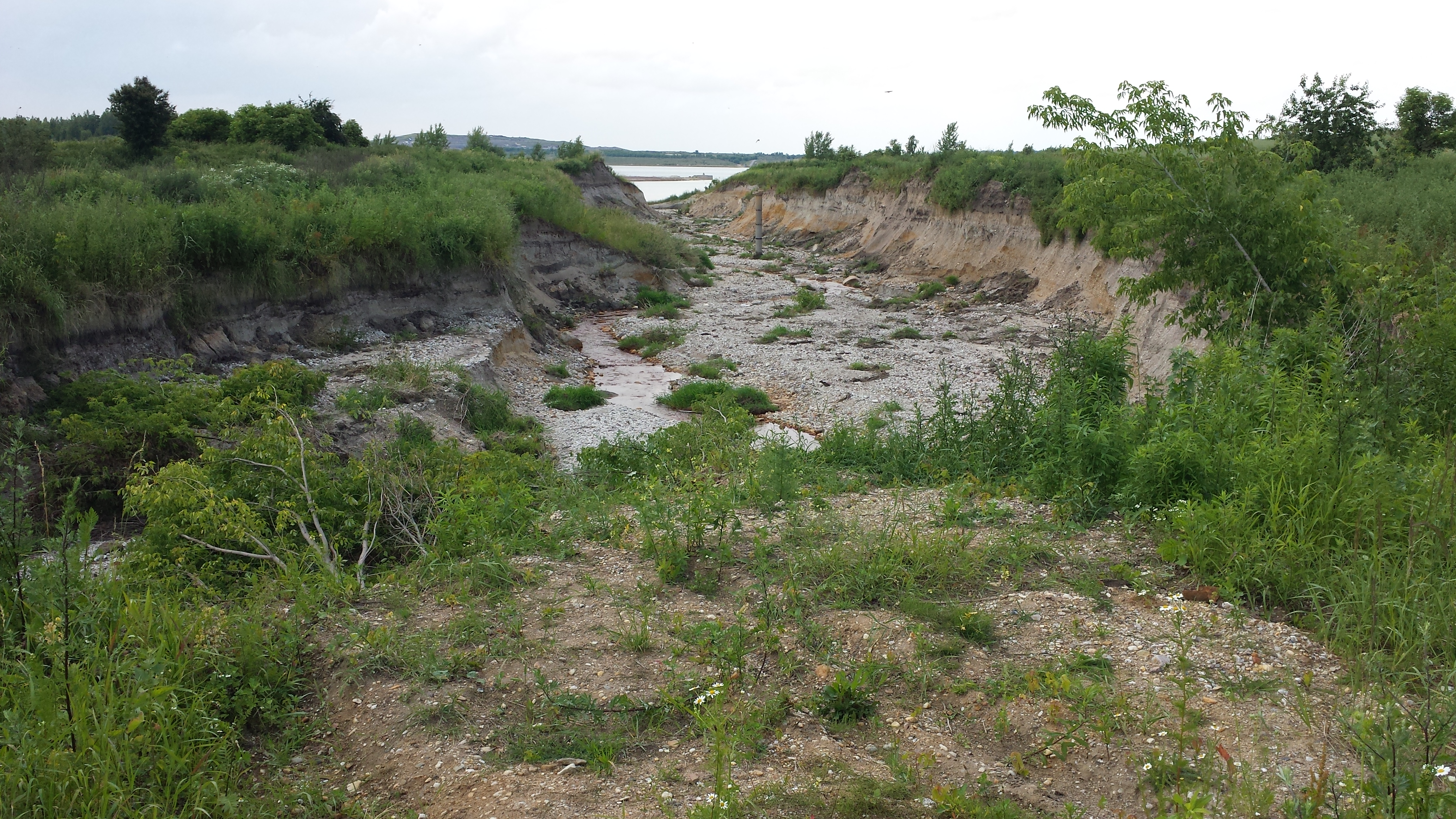 The Old Gösel near its mouth in the Störmthaler Lake.